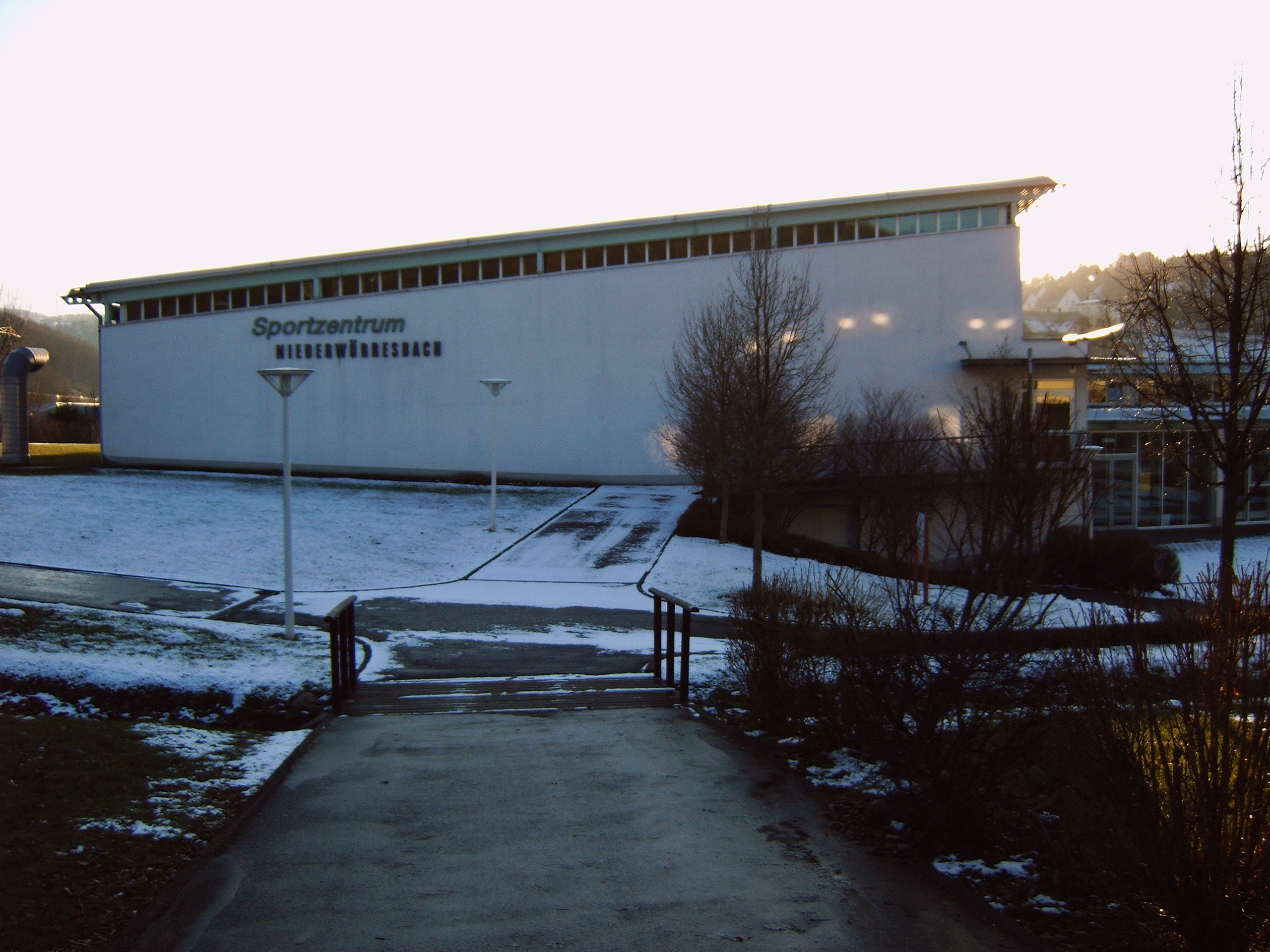 Description: Athletic's gym, side view Source: Alexander Dreyer Site views of Niederwörresbach, Germany, Photographed by myself, dec. 2005